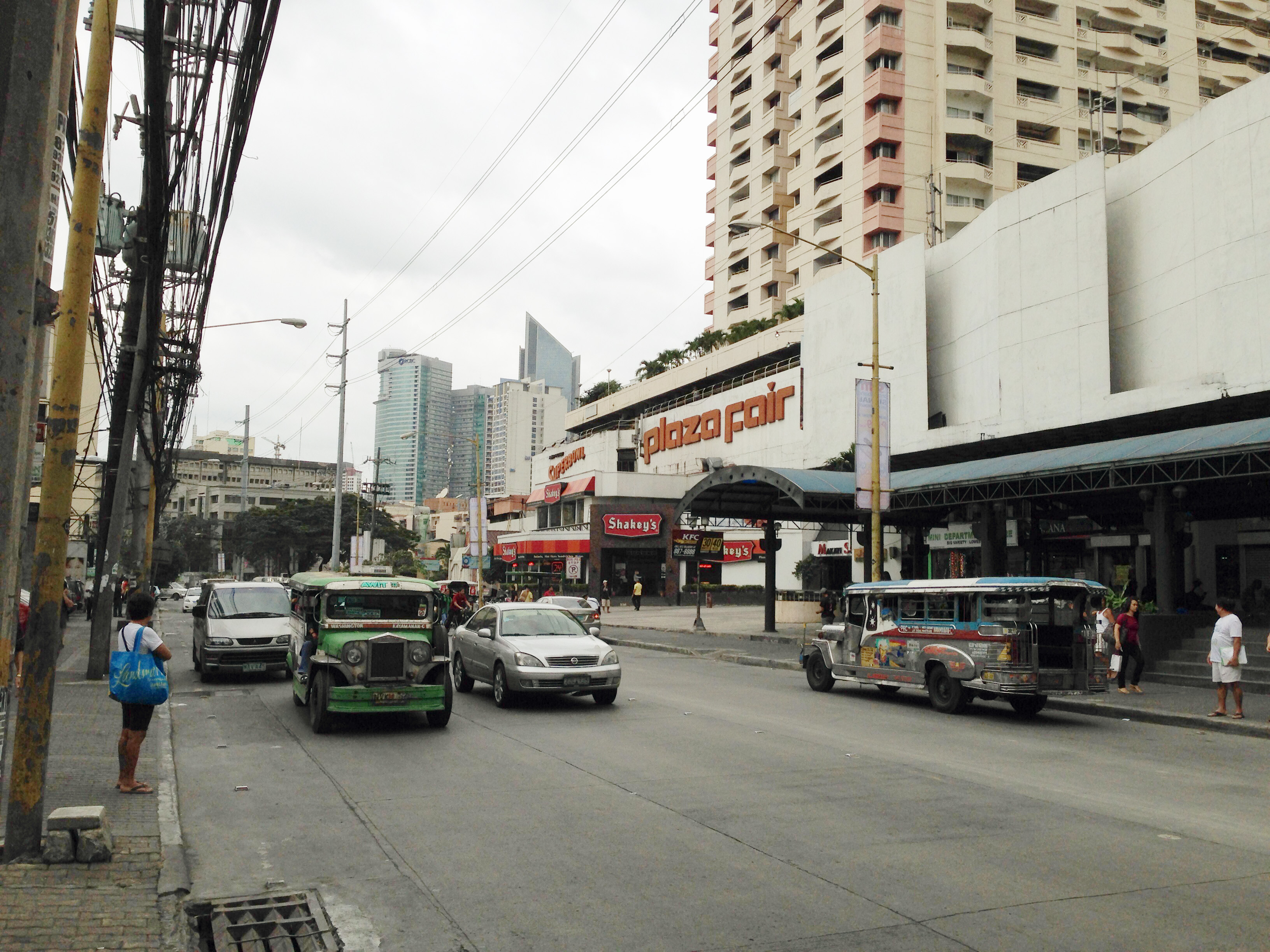 Makati Cinema Square, Chino Roces Avenue, Makati, Manila